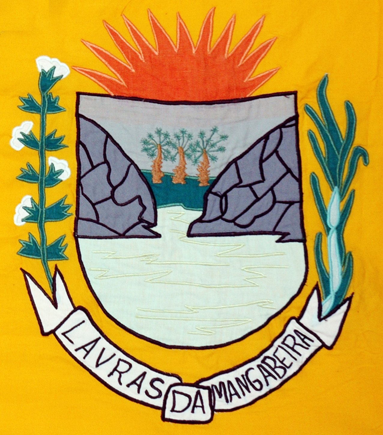 Coat of arms of Lavras da Mangabeira, CE, Brazil.